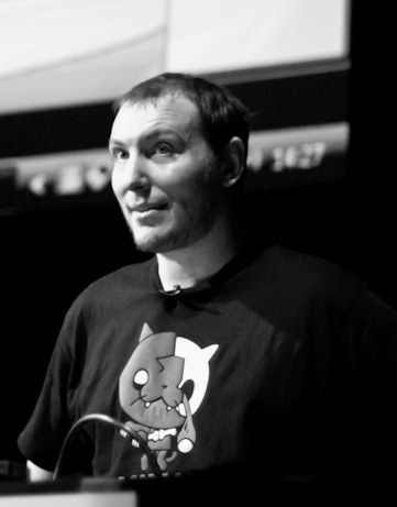 Cyriak Harris is a British freelance animator better known by his first name Cyriak, and his B3ta username Mutated Monty. He is known for his surreal and often disturbing short web animations.